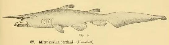 Mitsukurina owstoni syn. M. jordani